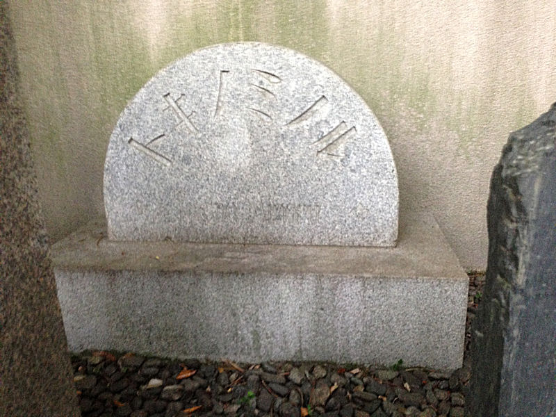 the tomb stone of Tokino Minoru.